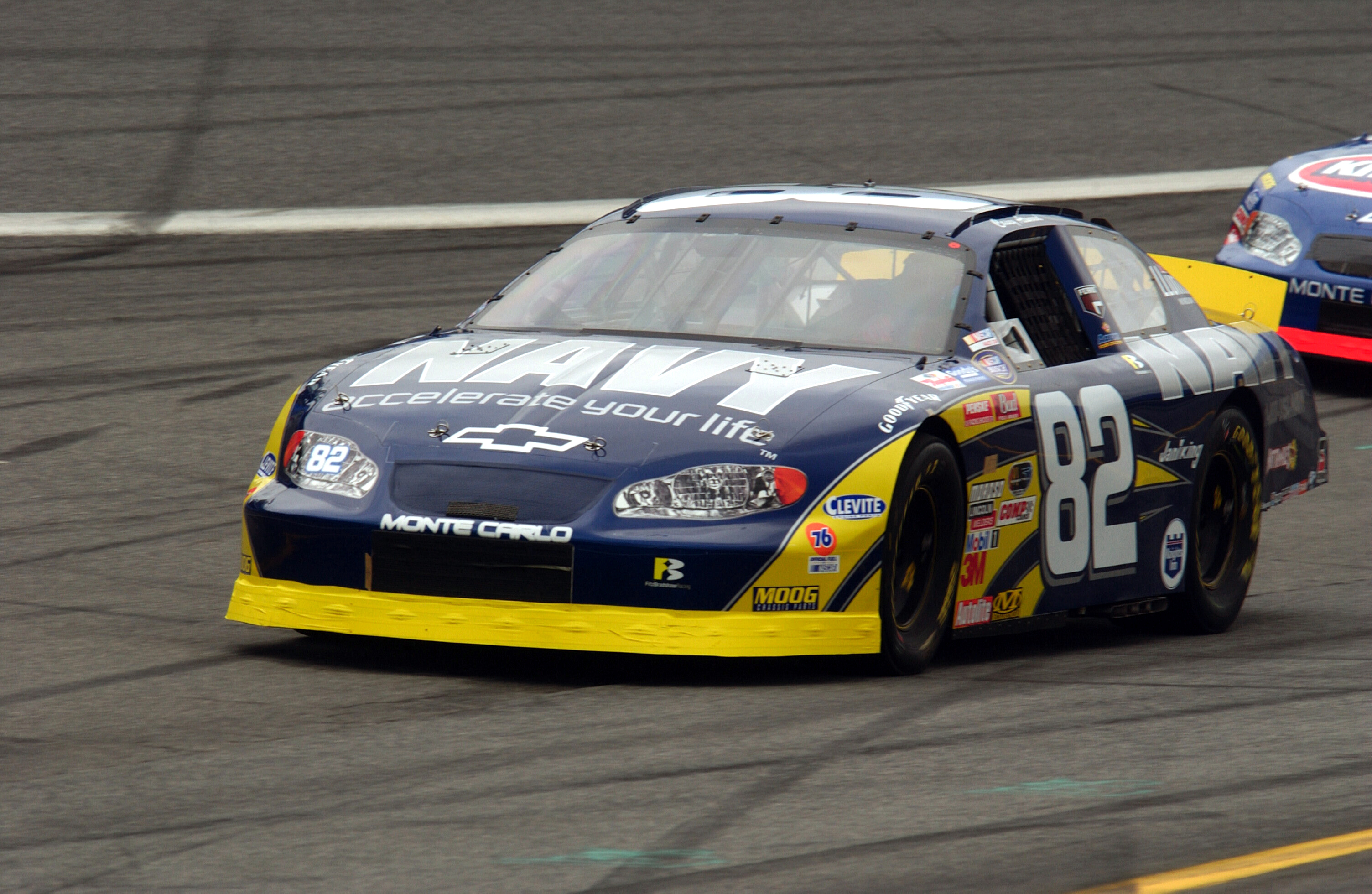 Charlotte, N.C. (May 23, 2003) -- Casey Atwood drives the Fitz-Bradshaw racing team Chevy Monte Carlo, sponsored by the U.S. Navy, during qualifying laps at Lowe’s Motor Speedway. Atwood will drive the blue and silver Chevrolet in eight races, beginning with the Bush series Carquest Auto Parts 300 on Saturday, May 24, 2003. Additionally, he will represent the Navy in a Winston Cup Series race later in the year. U.S. Navy Photo by Chief Photographer's Mate Chris Desmond. (RELEASED)